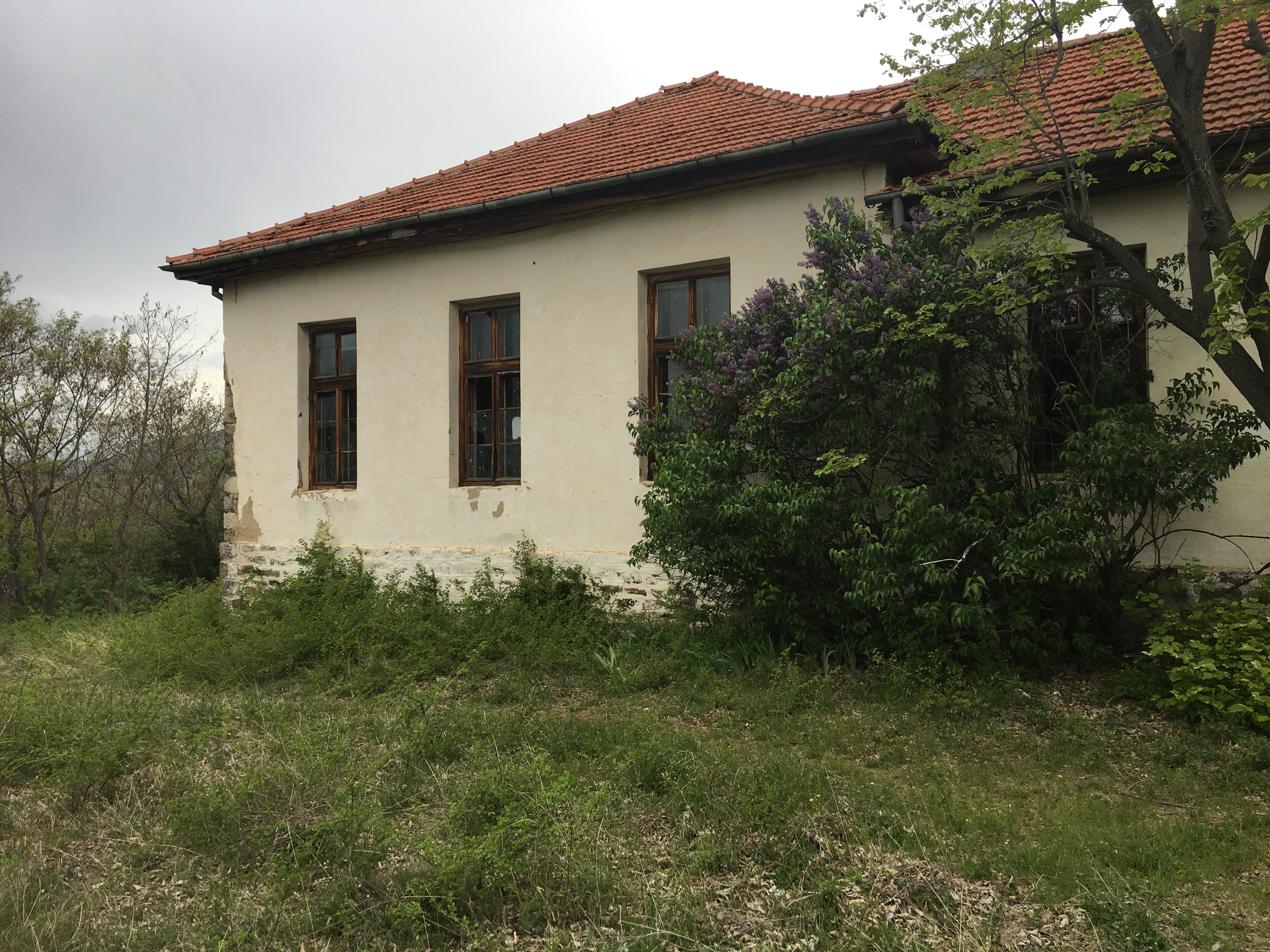 The primary school in the village of Dlabočica